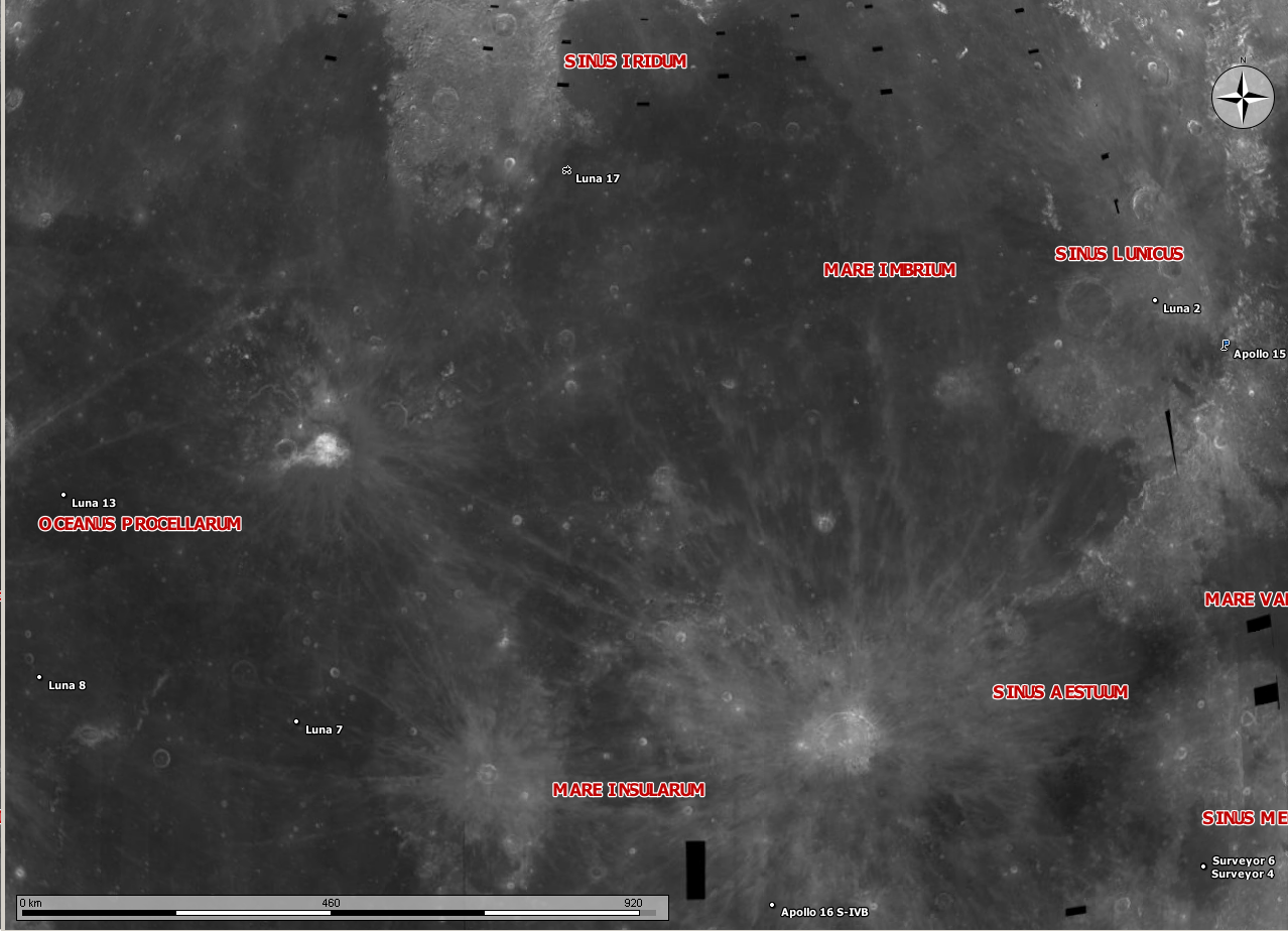 Map of the lunar surface, showing various rovers, landing sites etc. Also shows various lunar maria. Created using public domain moon maps in the Marble program, cropped with GIMP.